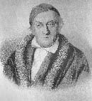 PD, this is public domain.